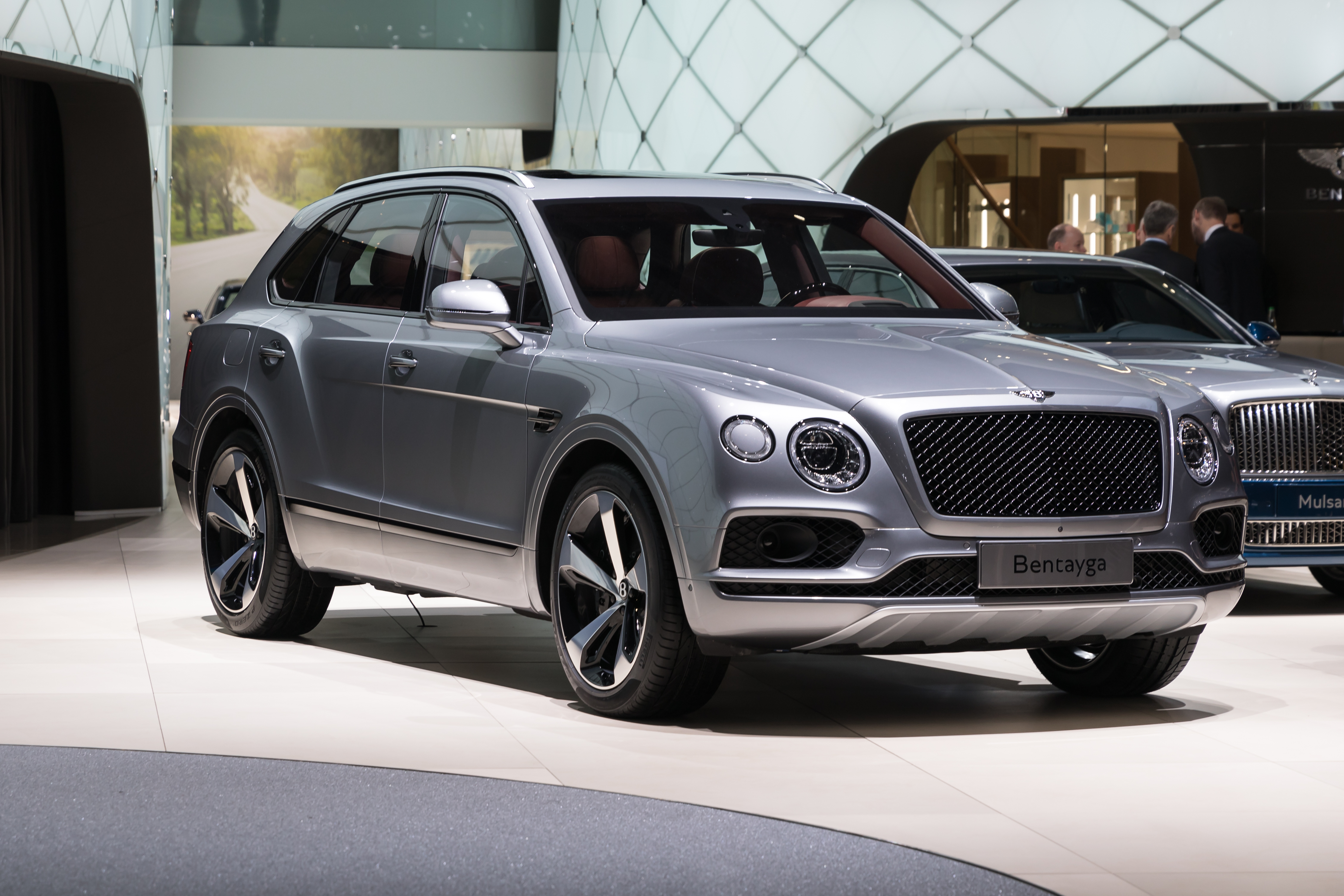 Geneva International Motor Show 2018, Bentley Bentayga V8